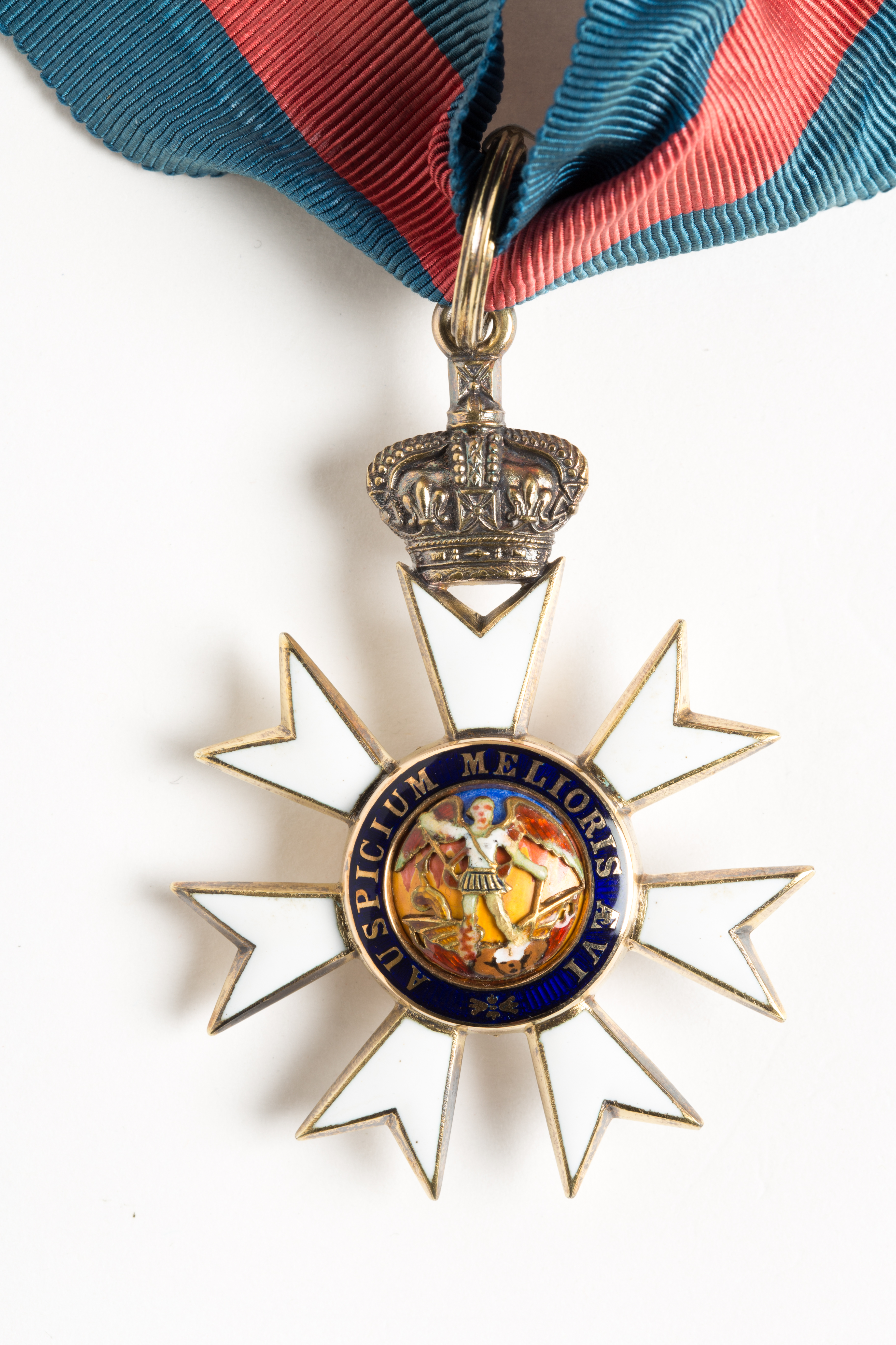 The Most Distinguished Order of St Michael and St George - Companion - CMG Awarded to Dr George Harry Uttley, MD DSc FGS, CMG (1879-1960) seven pointed metal and enamel star medal or Maltese Asterisk, 46mm wide, ring suspension with ribbon, obverse- white enamel points with enamel centre showing St Michael walking on Satan, crown at top reverse- St George on horseback killing a dragon ribbon- grosgrain ribbon, 39mm wide, red-blue-red with buckle-shaped clasp